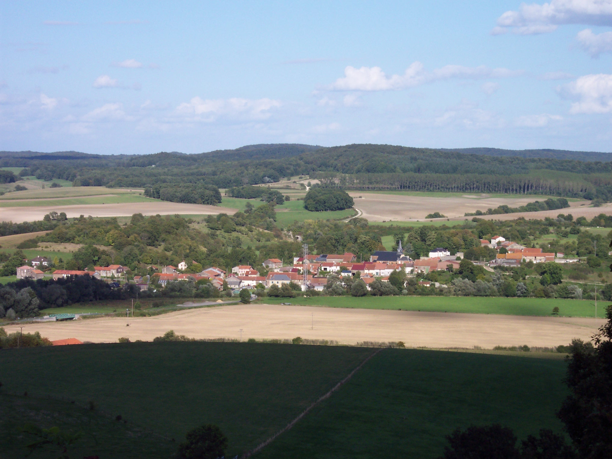 View on Fléville in Aire valley, from Argonne hills, Ardennes, Champagne-Ardenne, France.